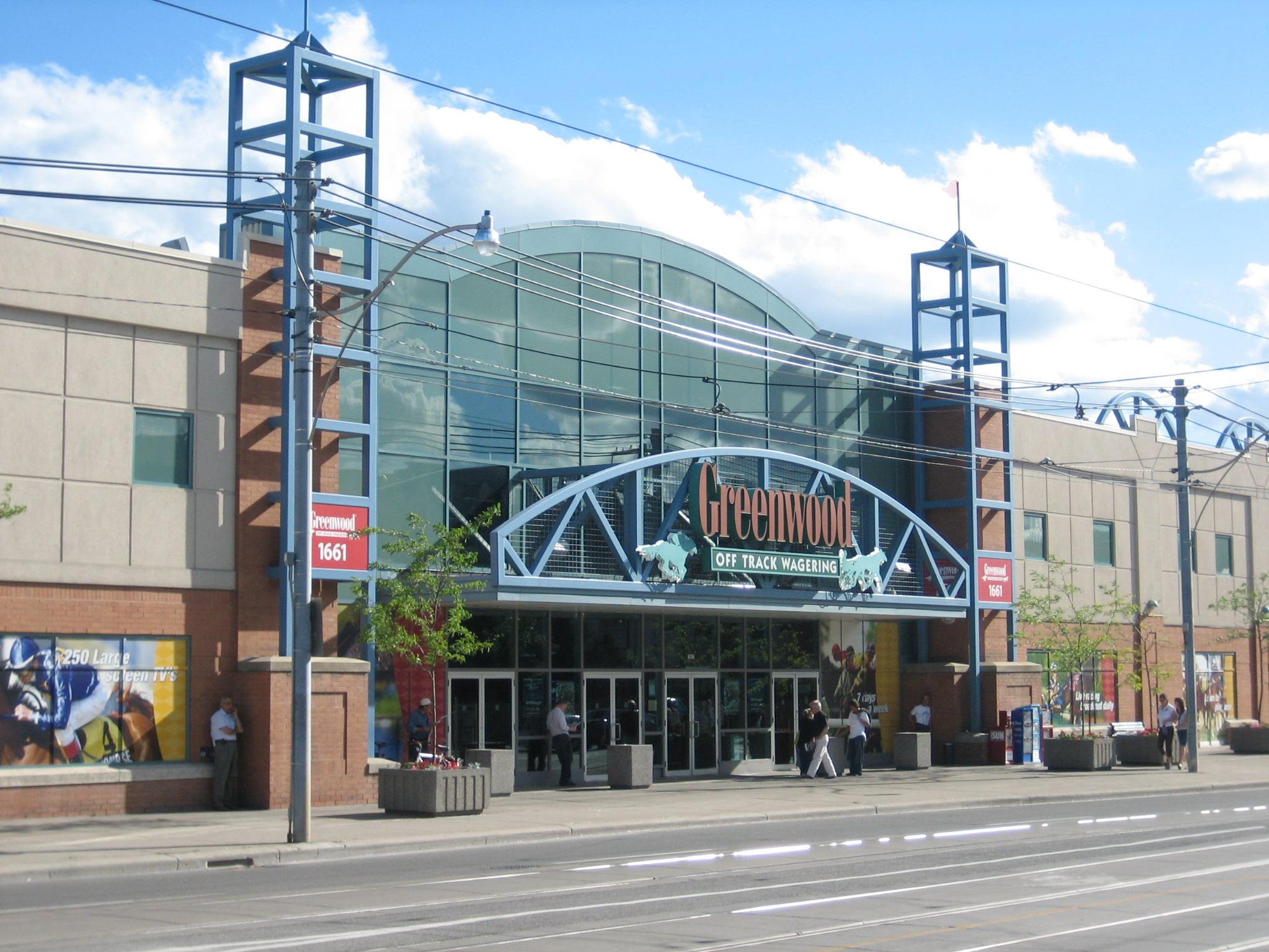 Off track betting site built to replace the Greenwood Raceway